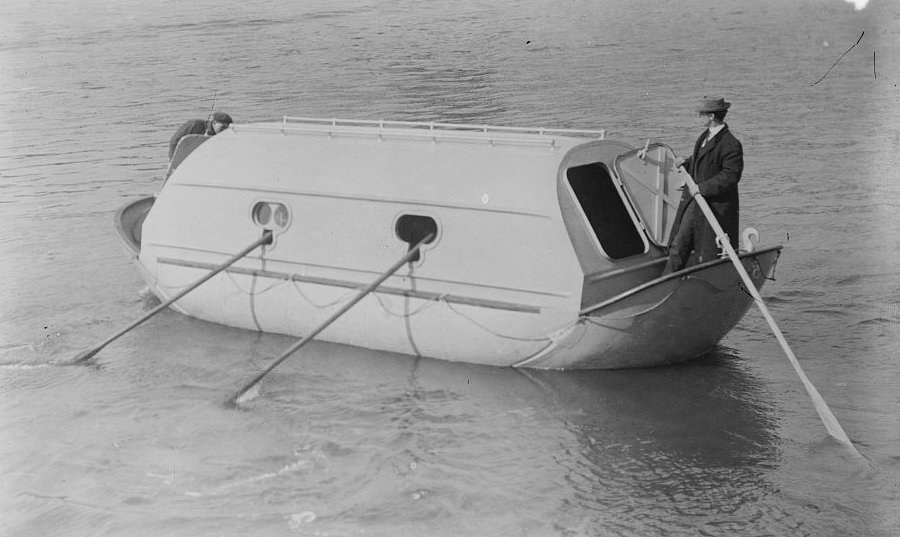 Andreas Petrus Lundin Life Boat in 1914 Bain News Service,, publisher. Lundin Life Boat [between ca. 1910 and ca. 1915] 1 negative : glass ; 5 x 7 in. or smaller. Notes: Title from unverified data provided by the Bain News Service on the negatives or caption cards. Forms part of: George Grantham Bain Collection (Library of Congress). Format: Glass negatives. Repository: Library of Congress, Prints and Photographs Division, Washington, D.C. 20540 USA, General information about the Bain Collection is available at Persistent URL: Call Number: LC-B2- 3015-15